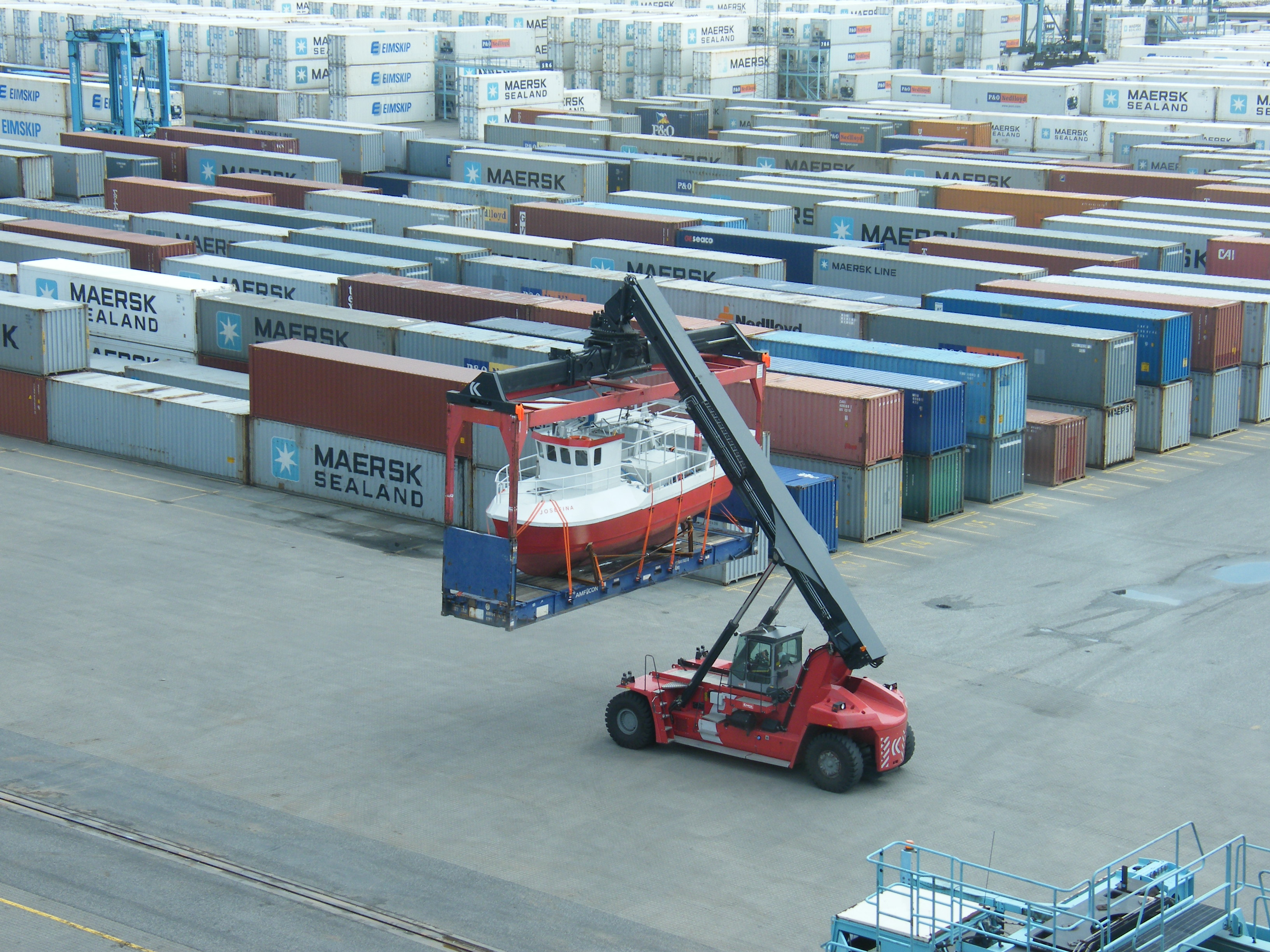 A flat-rack container loaded with an OOG (out of gauge) small vessel. Port of Aarhus, Denmark